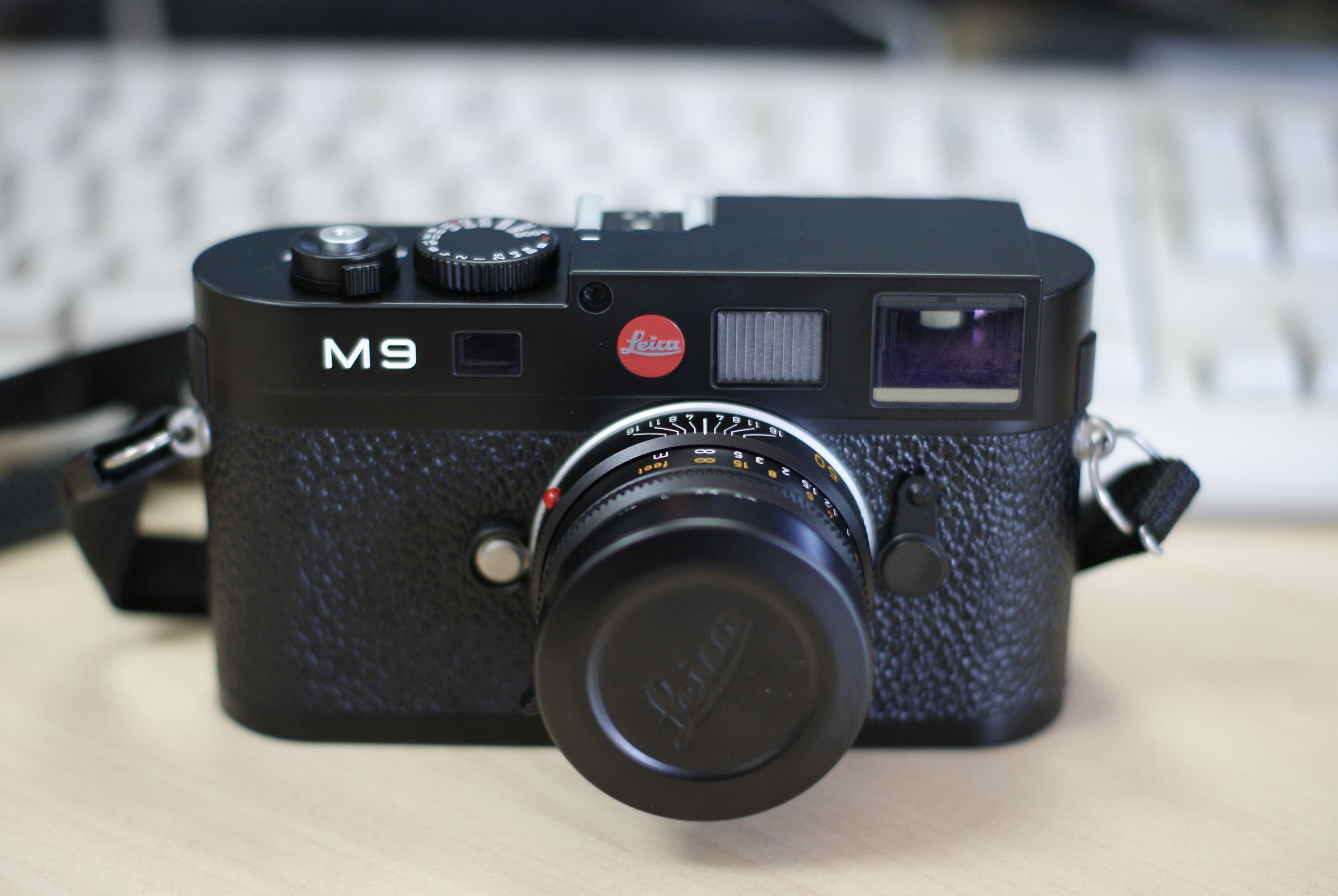 Front view of Leica M9 digital rangefinder camera